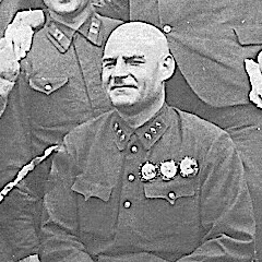 Grigory Ivanovich Kulik 1936